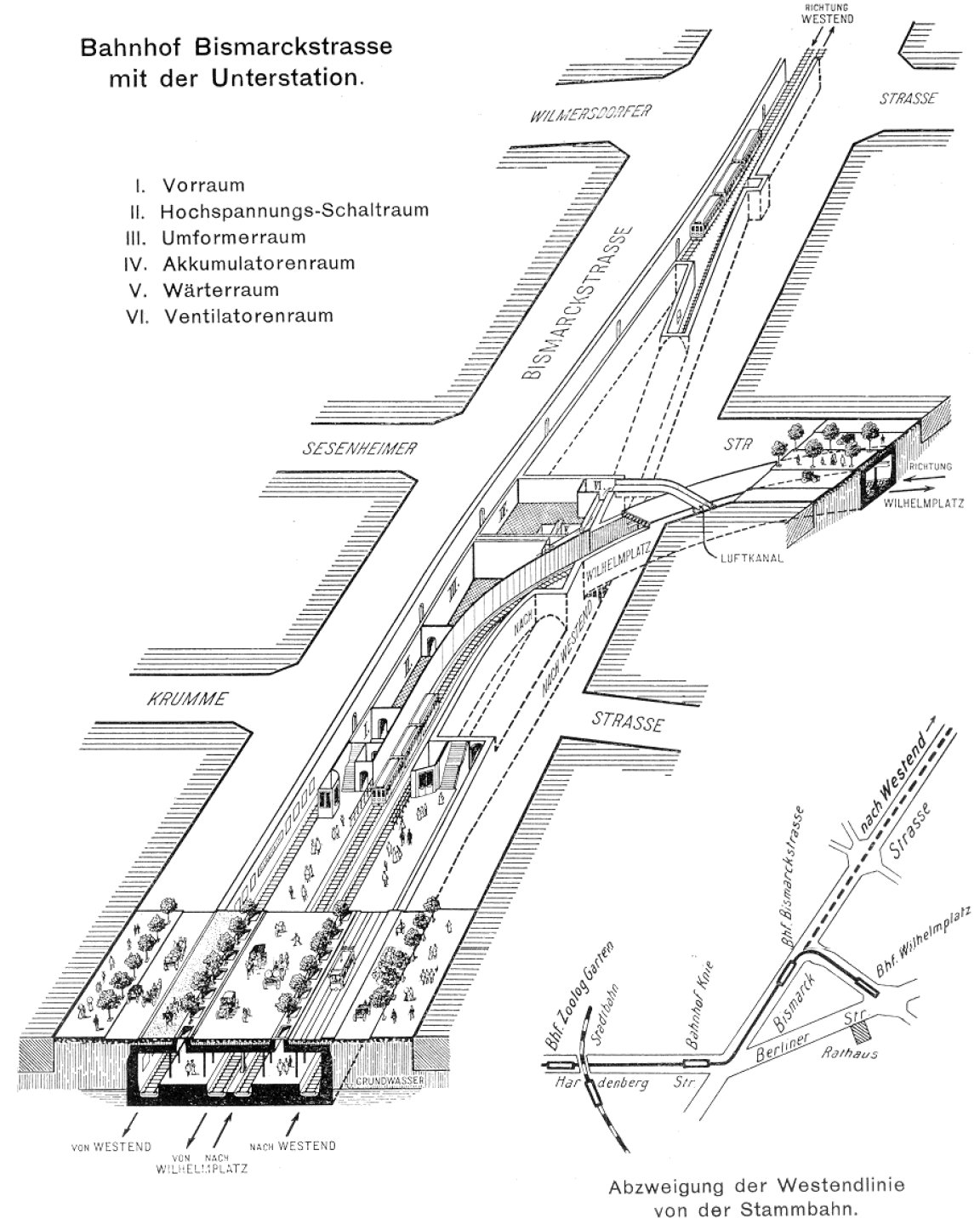 Schema of the Berlin U-Bahnstation Deutsche Oper (former Bismarckstraße), 1908